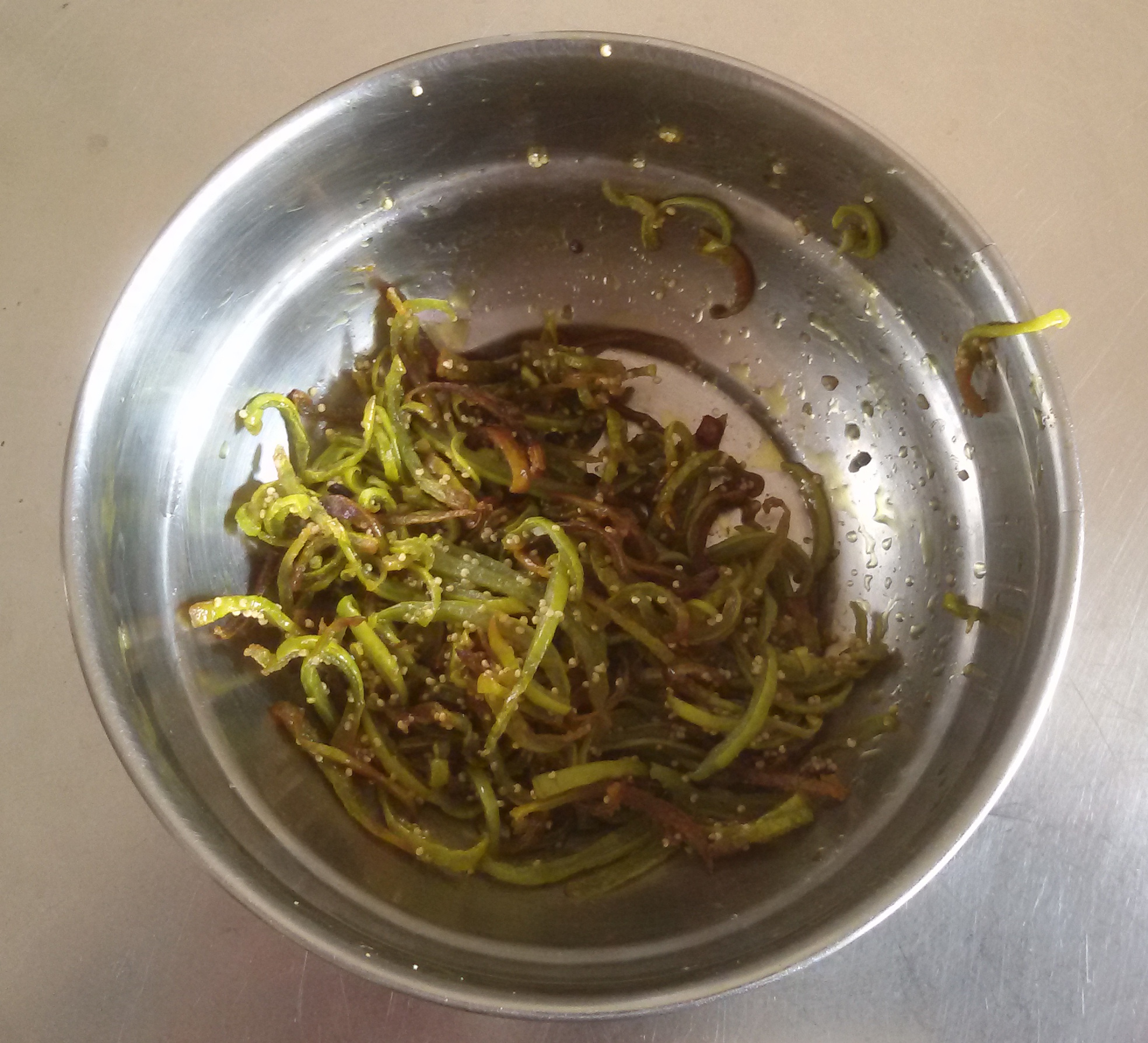 Photograph of bottle gourd skin stir fried with poppy seeds. This is popular side dish in West Bengal. This is taken alongside lentils and rice.